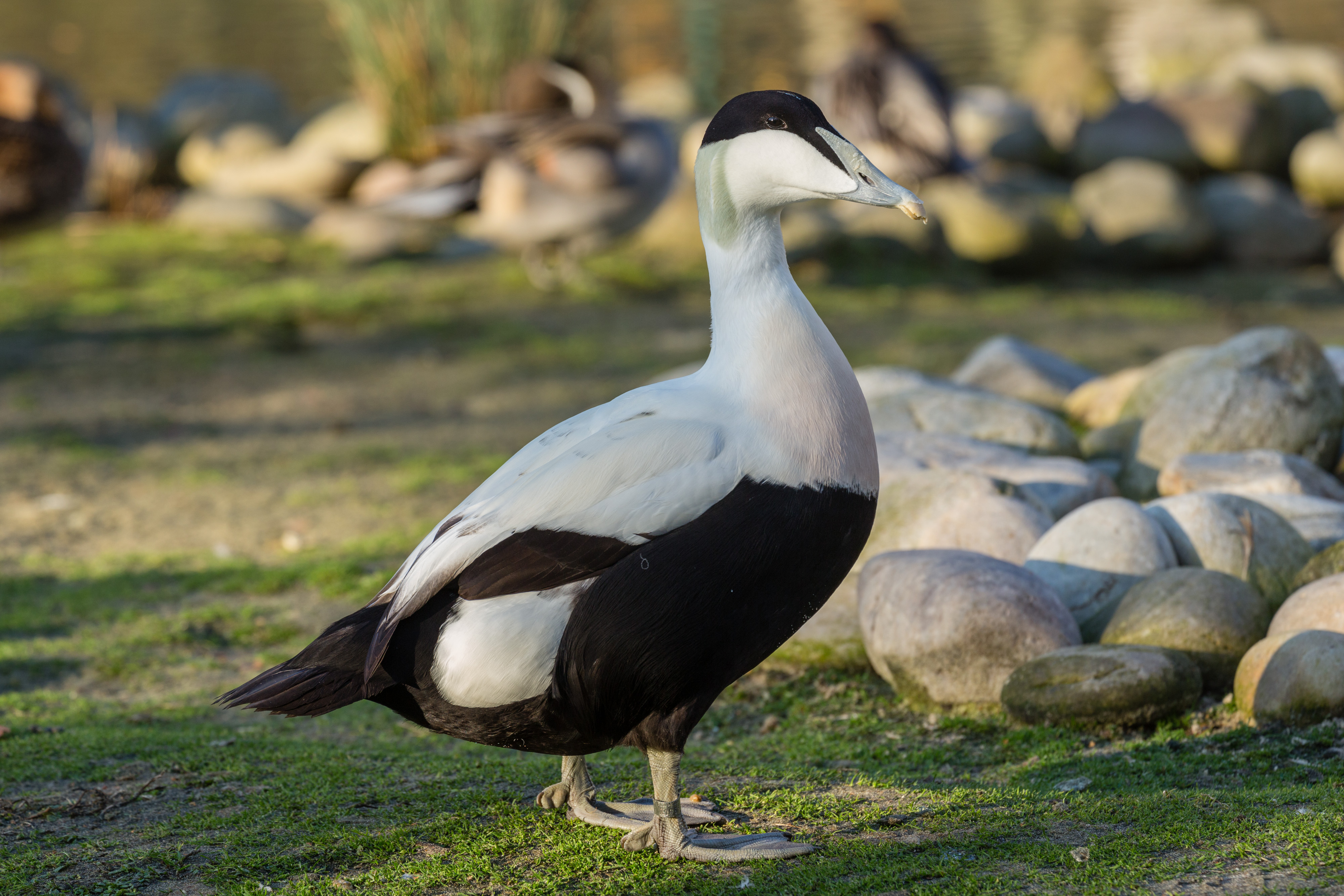 A male Somateria mollissima (Common Eider) at the London Wetland Centre, Barnes, UK.